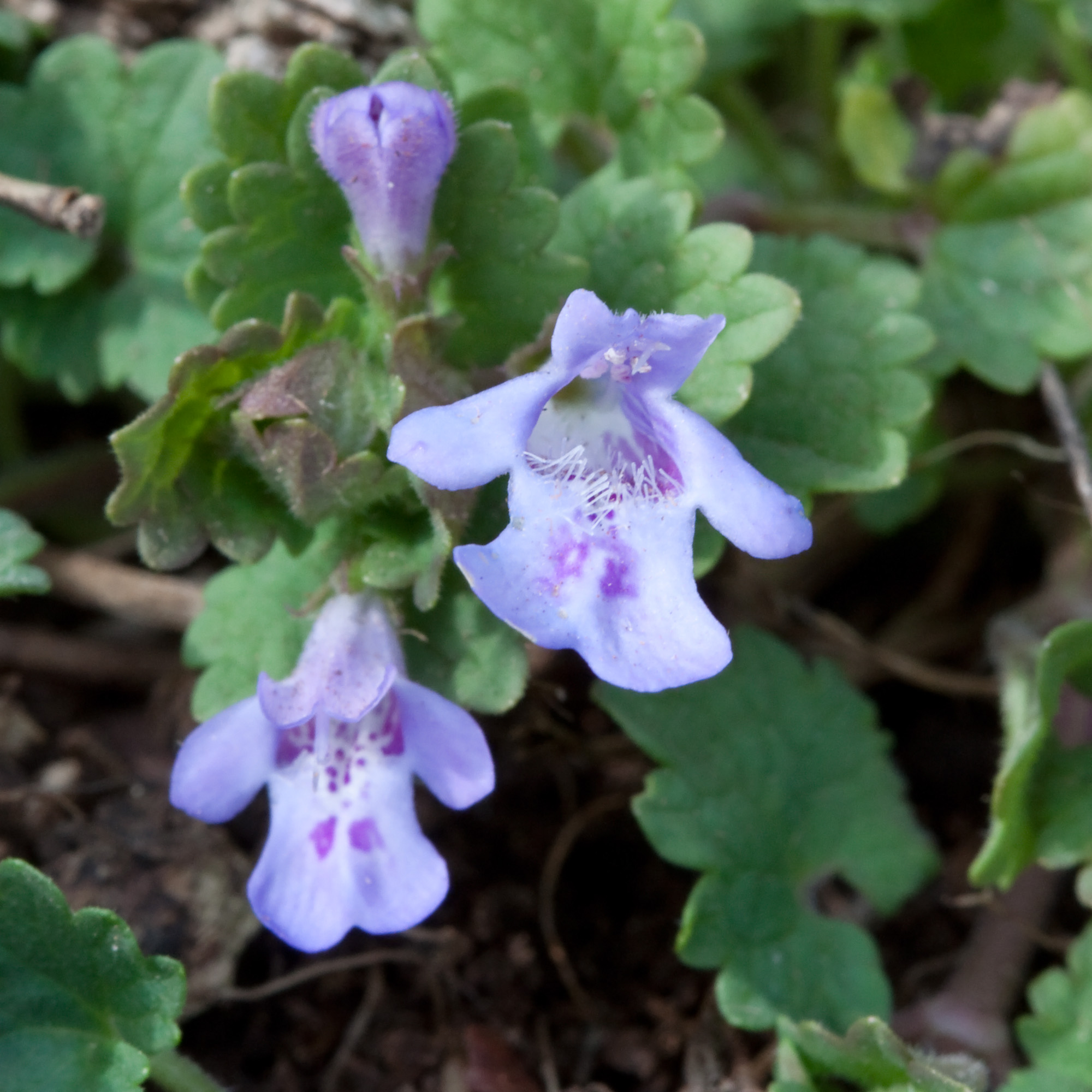 Ground Ivy (Glechoma hederacea) at Radnor Lake in Nashville, Tennessee